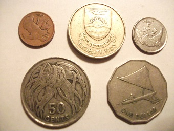 Circulated 1, 5, & 50 cents and 1 & 2 dollars from Kiribati. New coins have not been issued since 1992, making these increasingly scarce and well worn.